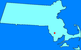 A map of Massachusetts with a dot over Assonet.